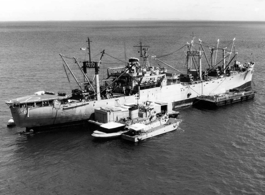 The U.S. Navy ammunition ship USS Mauna Loa (AE-8) offloading ammunition while at anchor at San Juan, Puerto Rico. The service craft alongside includes Waukegan (YTM-755) amidships and YC-1369 forward.